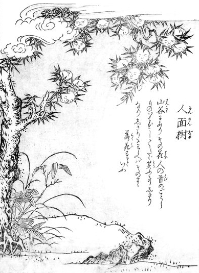 Ninmenju (人面樹, a tree which grows in remote mountains recesses, with flowers that resemble human faces) from the Konjaku Hyakki Shūi (今昔百鬼拾遺)